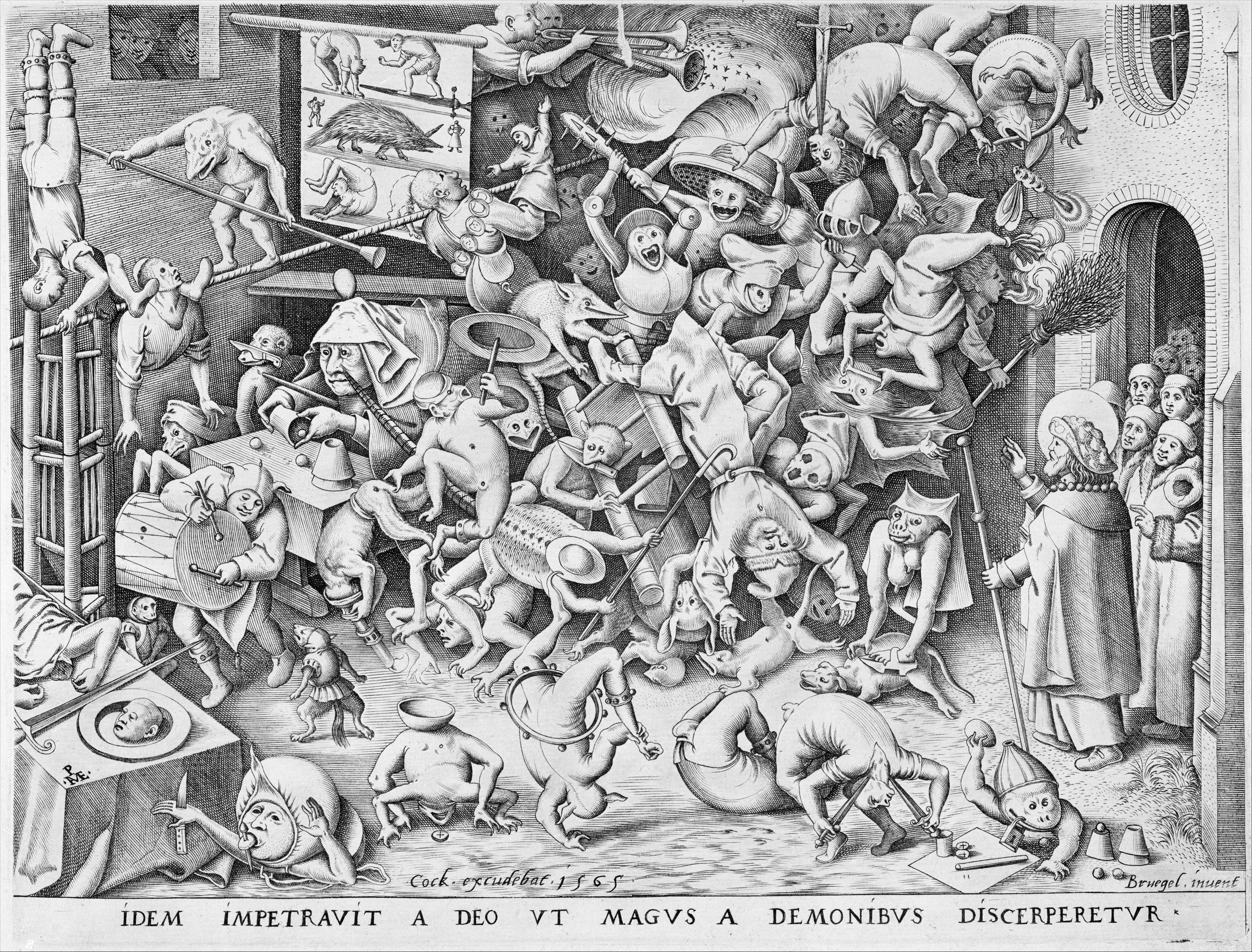 "Fall of the Magician" (1565) engraving by Pieter van der Heyden, after Pieter Bruegel the Elder. A satire of the excesses of the Spanish Inquisition.